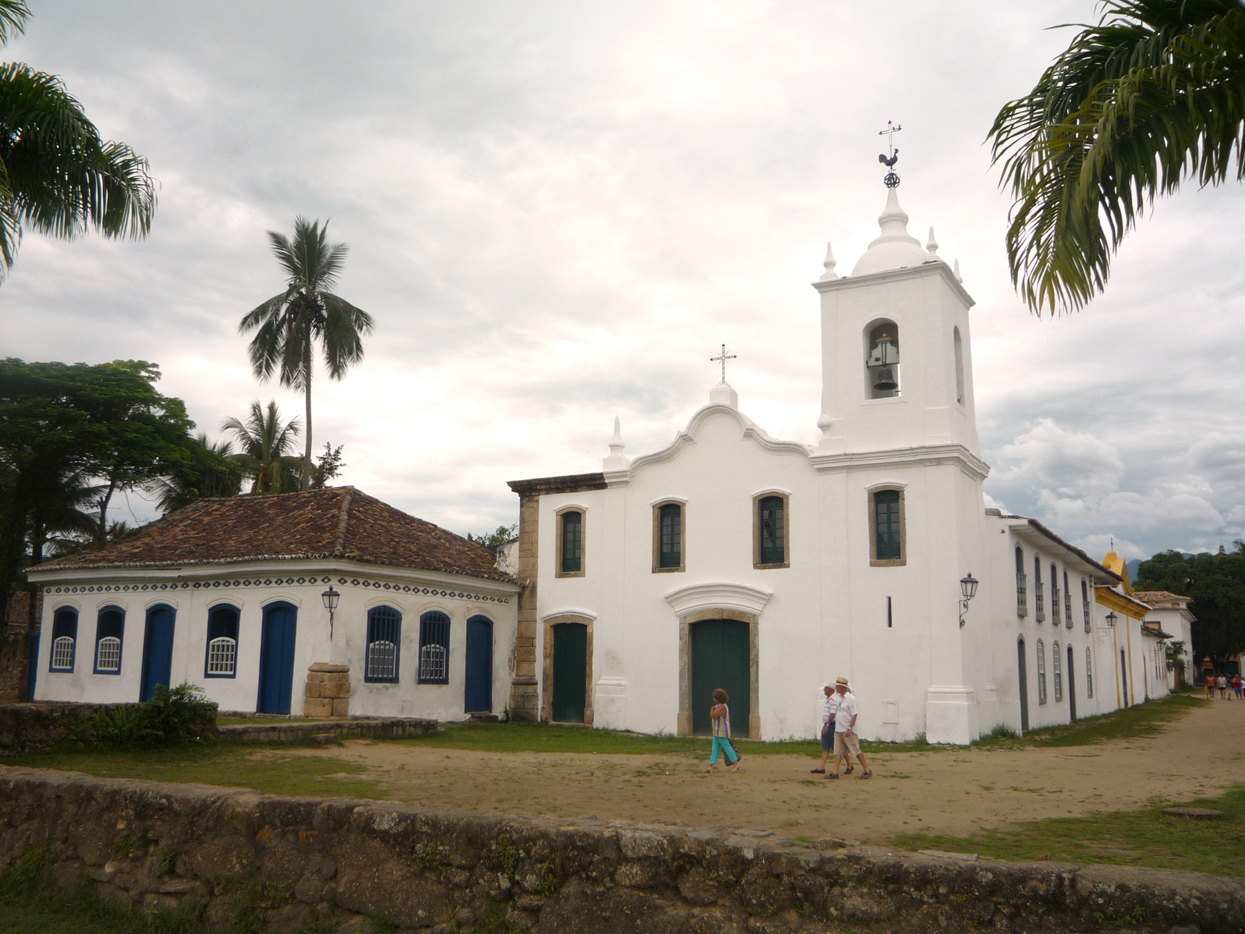 Nossa Senhora das Dores Church in Paraty, Rio de Janeiro, Brasil